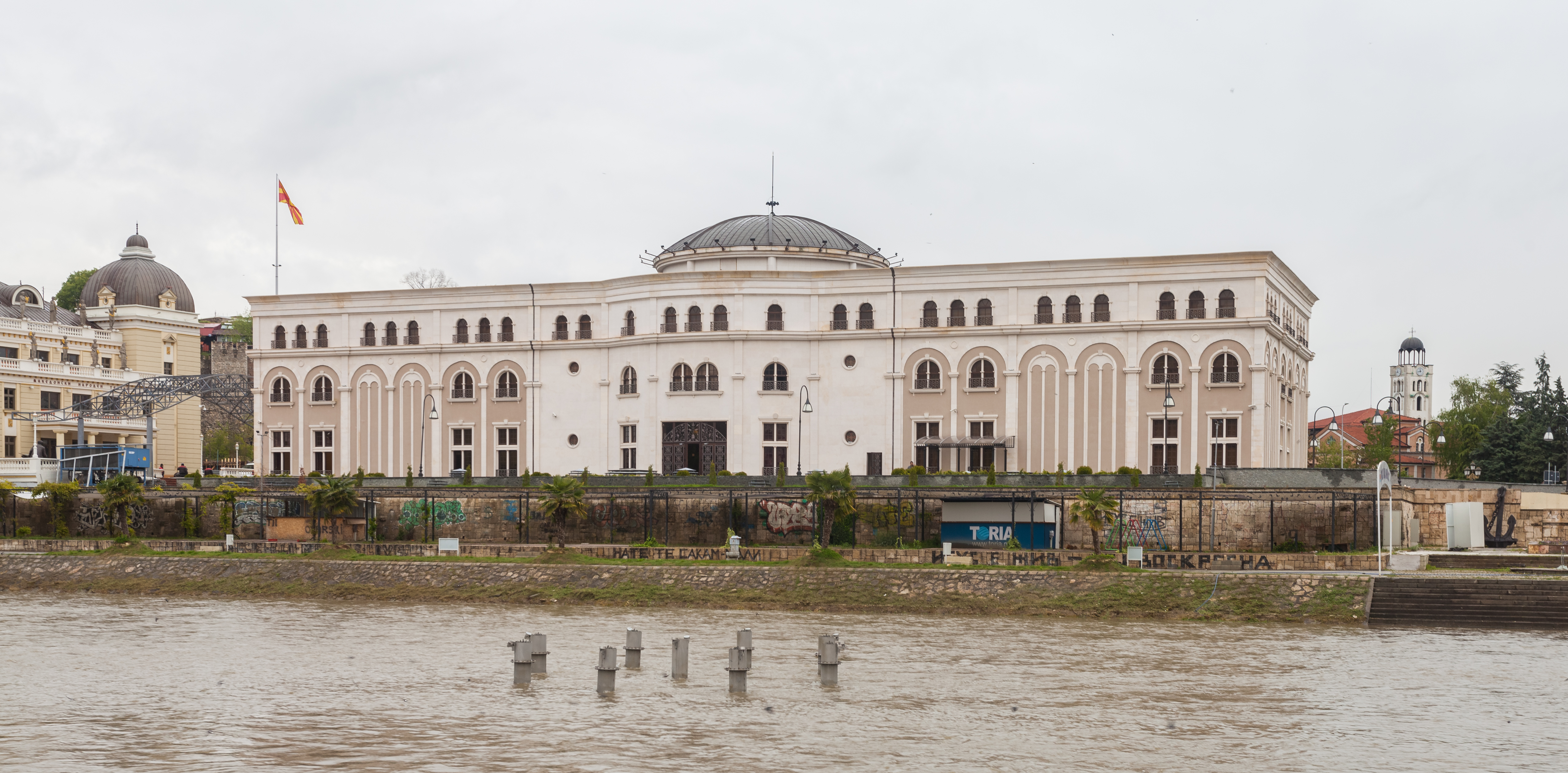 Museum of the Macedonian Struggle, Skopje, Republic of Macedonia